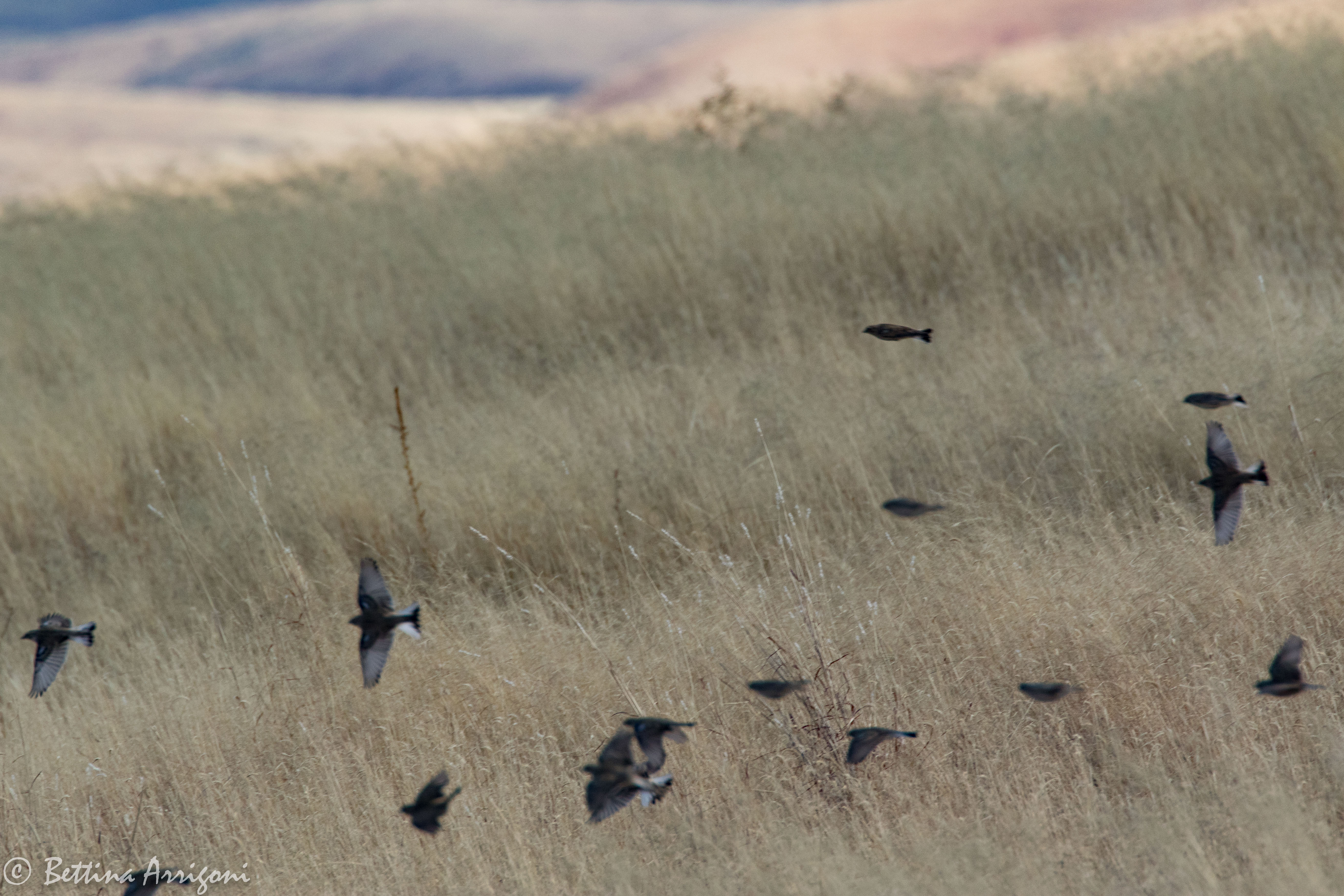 Chestnut-collared Longspur | Curly Horse Ranch Rd | Sonoita | AZ|2017-12-14|10-57-52.jpg